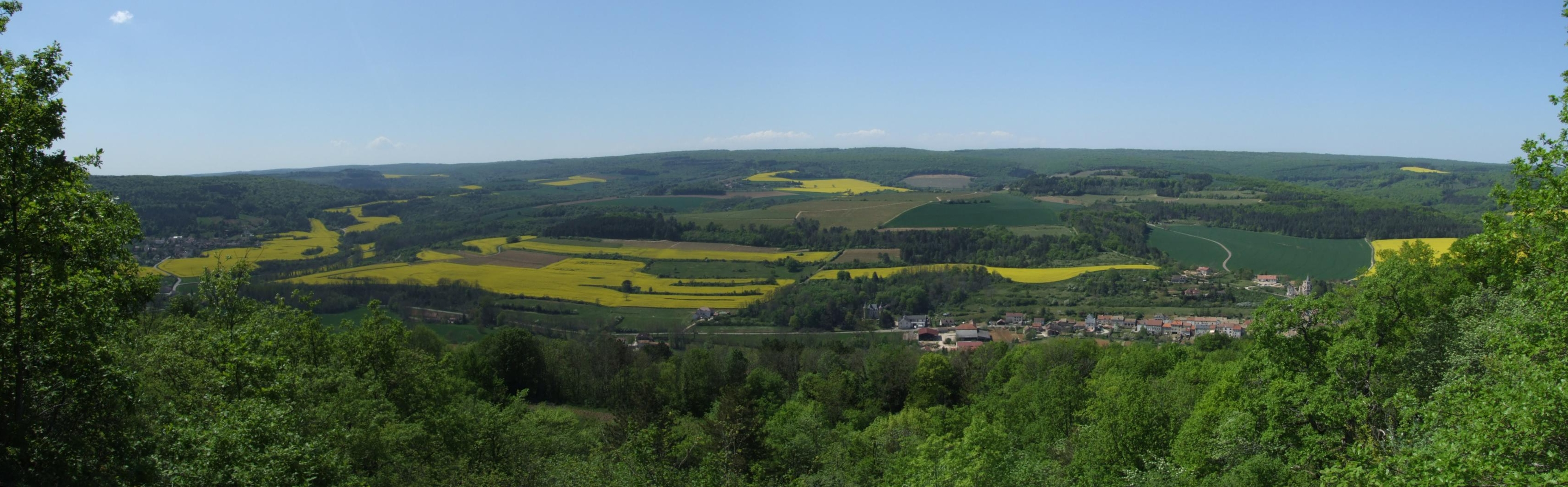 Burgundy, FRANCE